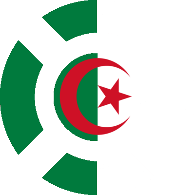 Logo algerie (Wiki project Algeria)